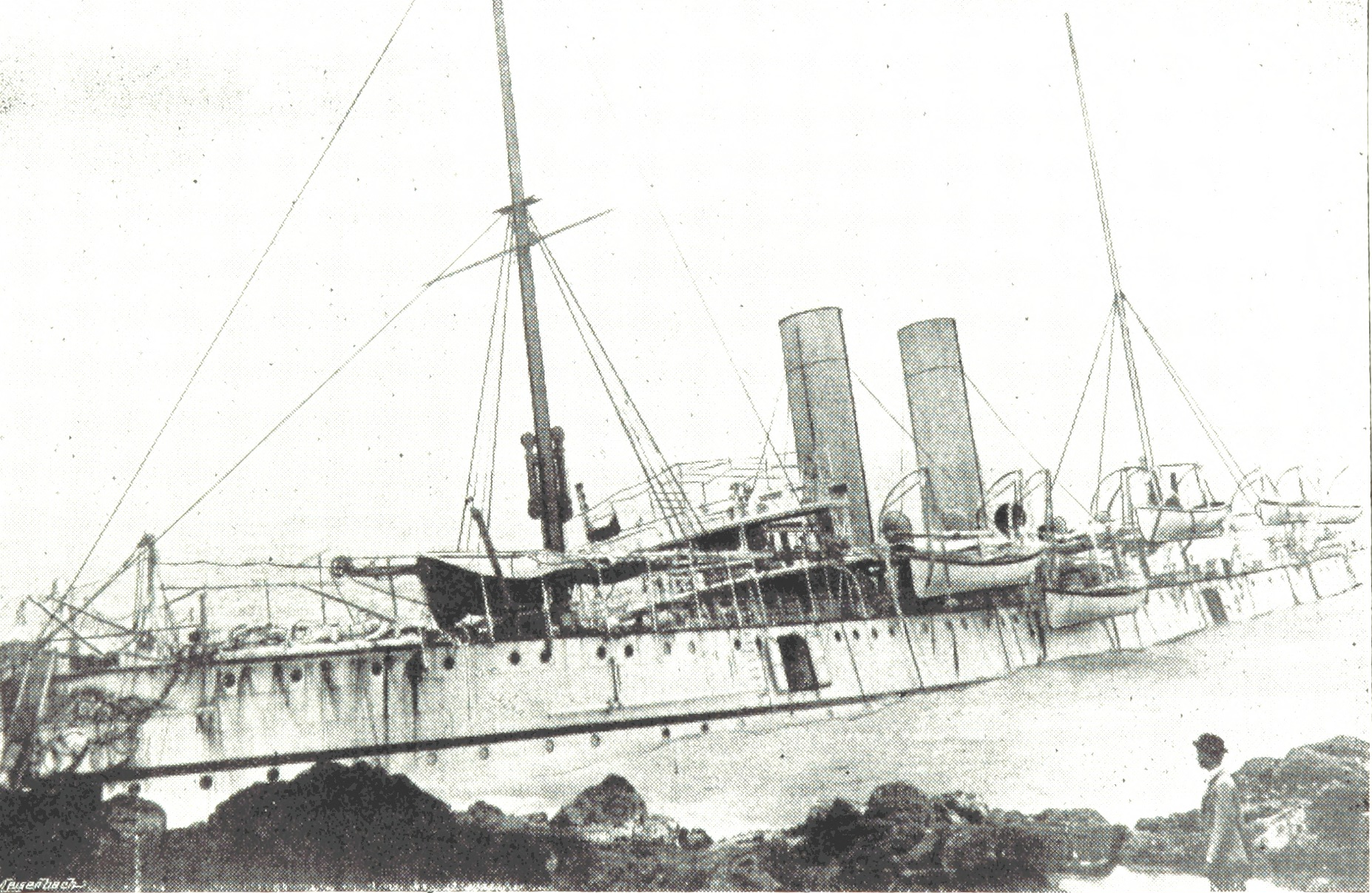 RIMS Warren Hastings, a ship ashore St. Phillipe, Reunion Island